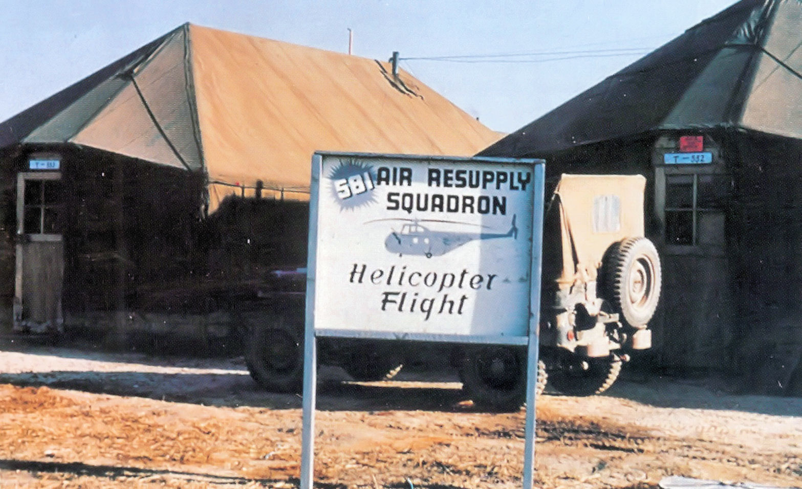 581st Air Resupply Squadron Helicopter Flight, Kimpo Airfield, South Korea